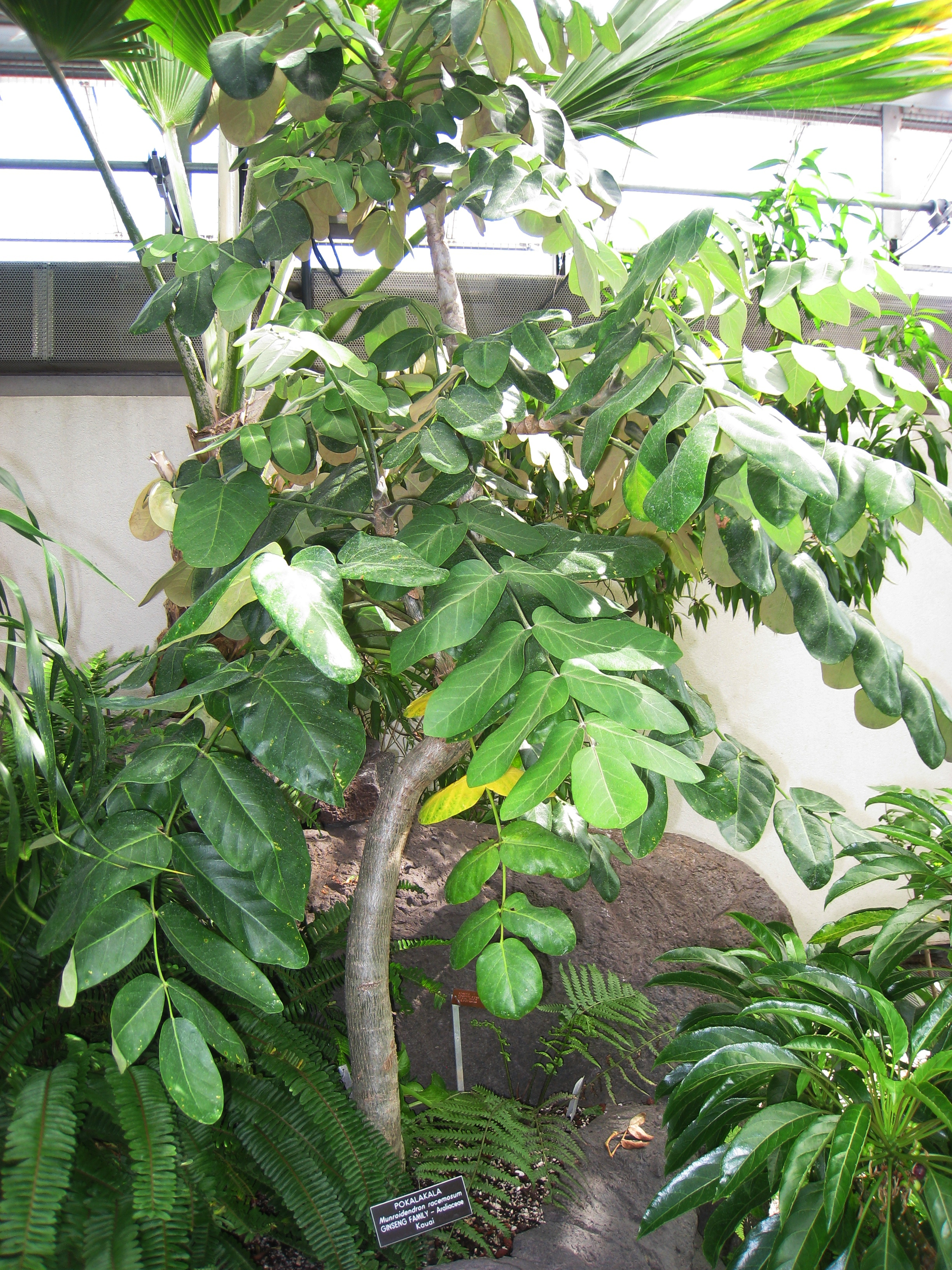 Munroidendron racemosum, in the United States Botanic Garden, Washington, DC, USA.